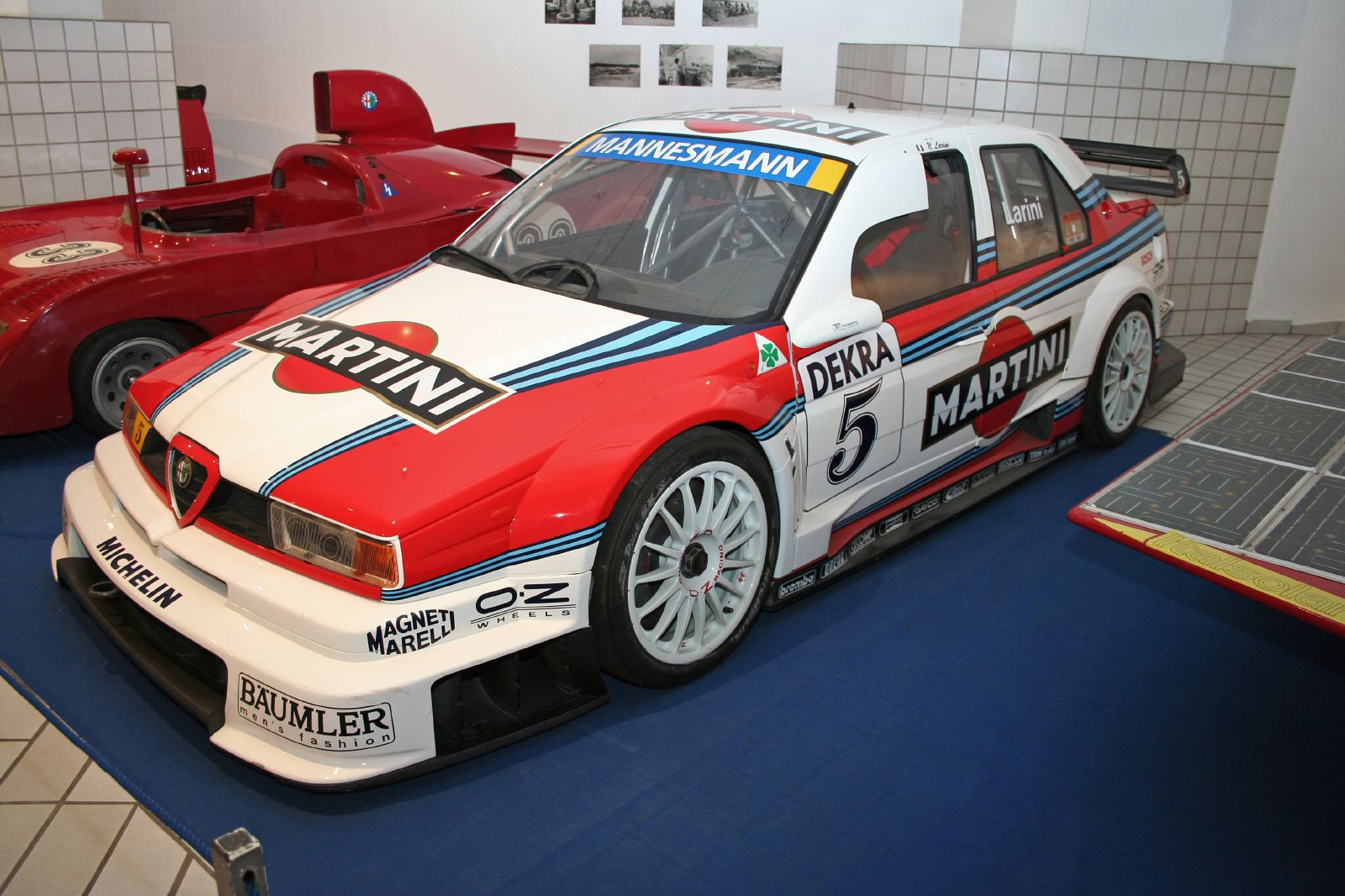 Alfa 155 DTM MUSEO DELL'AUTOMOBILE Turin